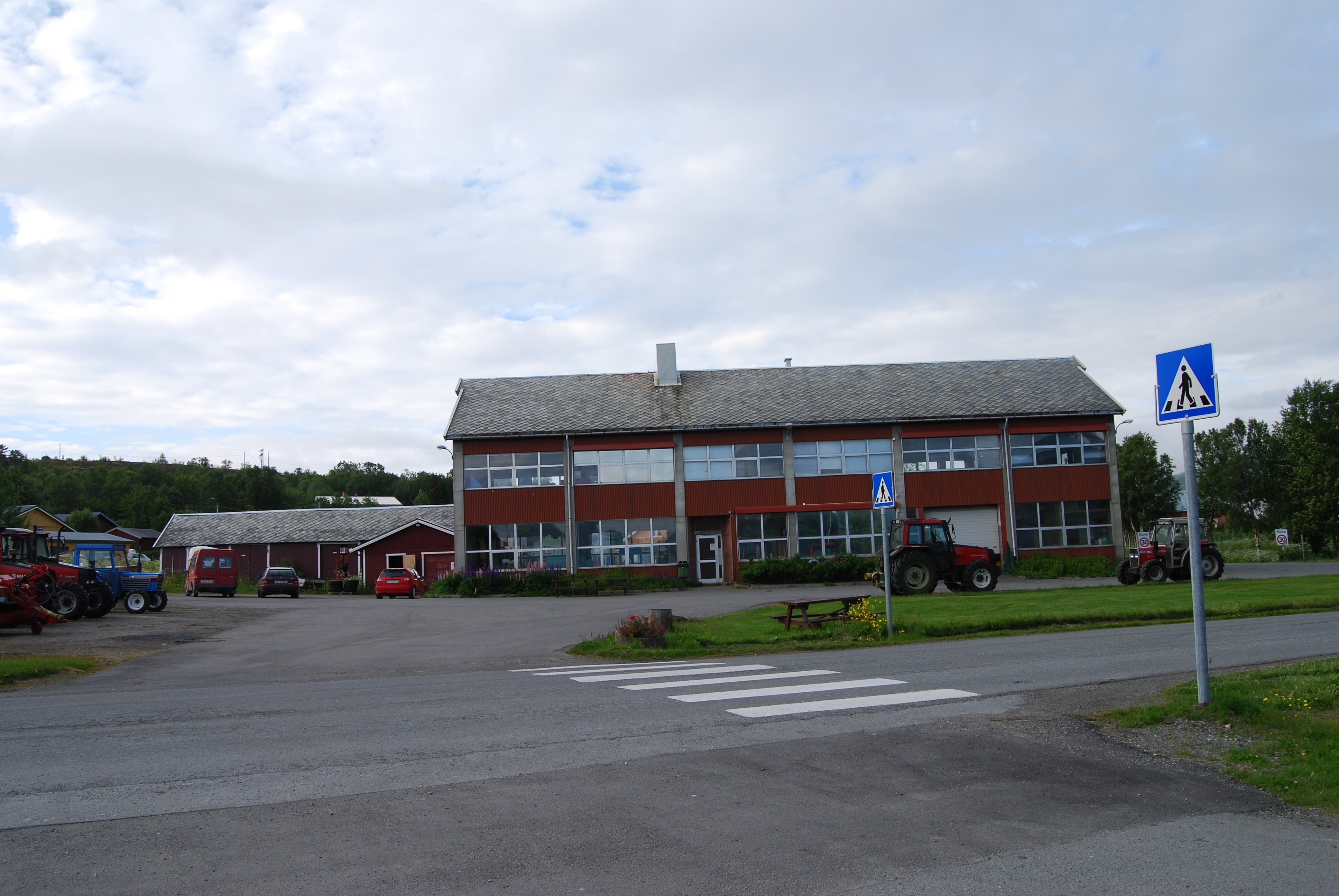 Senja videregående skole (veterinary school) on Senja, Norway.